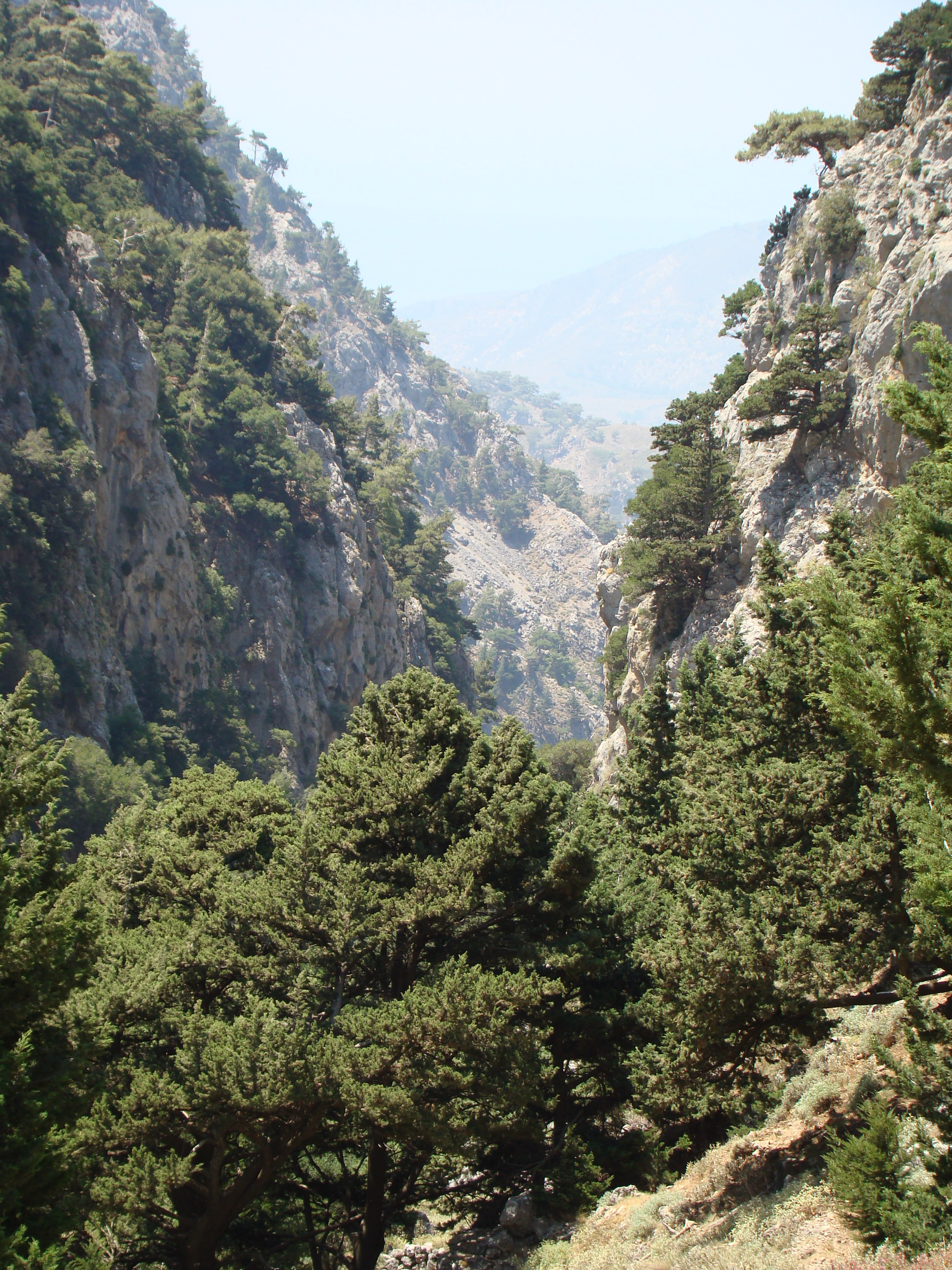 Photograph of the gorge Saint Irene in Crete (Chania), with Cupressus sempervirens in foreground